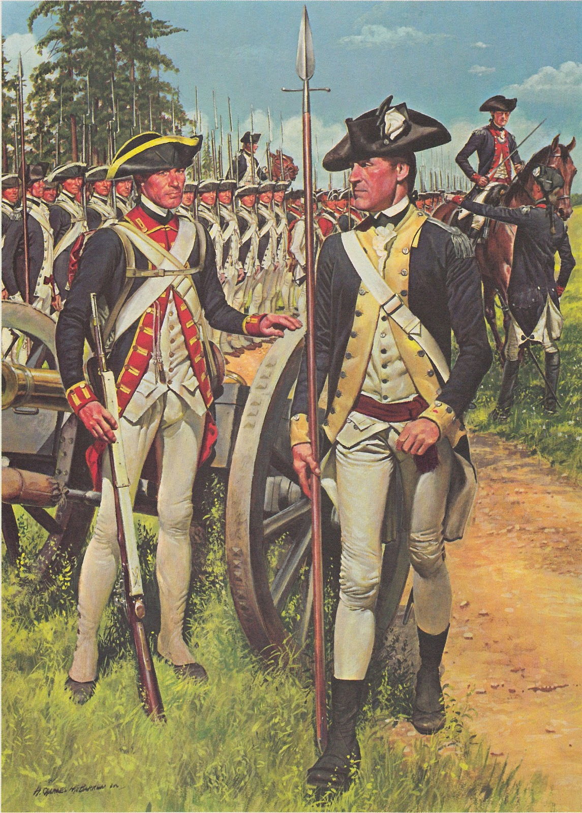 The troops in this painting wear the uniforms prescribed in the regulations of 1779 and supplied at the time of the Yorktown campaign -- blue coats with distinctive facings for the infantry regiments from four groups of states: New England; New York and New Jersey; Pennsylvania, Delaware, Maryland, and Virginia; and the Carolinas and Georgia. All of the infantry coats were lined with white and had white buttons. All troops wore white overalls and waistcoats. A lieutenant in the right foreground is recognizable by the epaulette on his left shoulder. He is in the uniform worn by the troops from New York and New Jersey, blue faced with buff. On his cocked hat he wears the black and white "Union" cockade introduced by General Washington in July 1780, emblematic of the union of the American and French Armies. He holds an espontoon, the weapon carried by all company officers and sergeants in addition to their swords. To the left of the lieutenant stands a private of artillery in the blue coat faced with red and lined with red, trimmed with yellow of the artillery. In the background, from left to right, are the New England troops from New Hampshire, Massachusetts, Rhode Island, and Connecticut in blue faced with white, and a drummer in the reversed colors (behind the espontoon). Then come musicians in red faced with blue, the reversed colors of the units from Pennsylvania, Delaware, Maryland, and Virginia. At the far right are two field officers from these same states in blue coats faced with red, with epaulettes on both shoulders; the one on horseback wears a gorget,an officer's insignia worn in most European armies of the period.